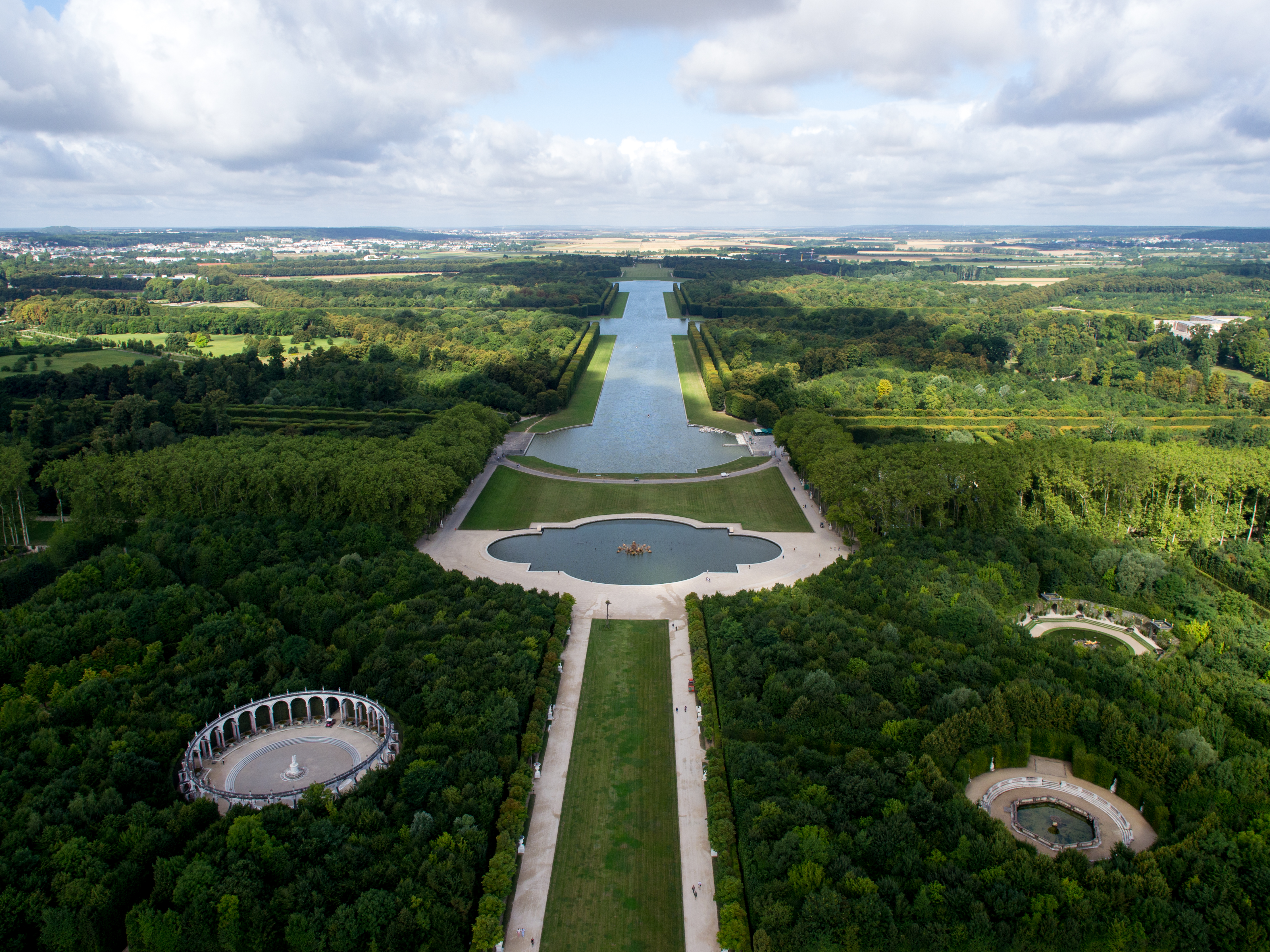 Aerial view of the bassin d'Apollon and the Grand Canal in the gardens of Palace of Versailles, France